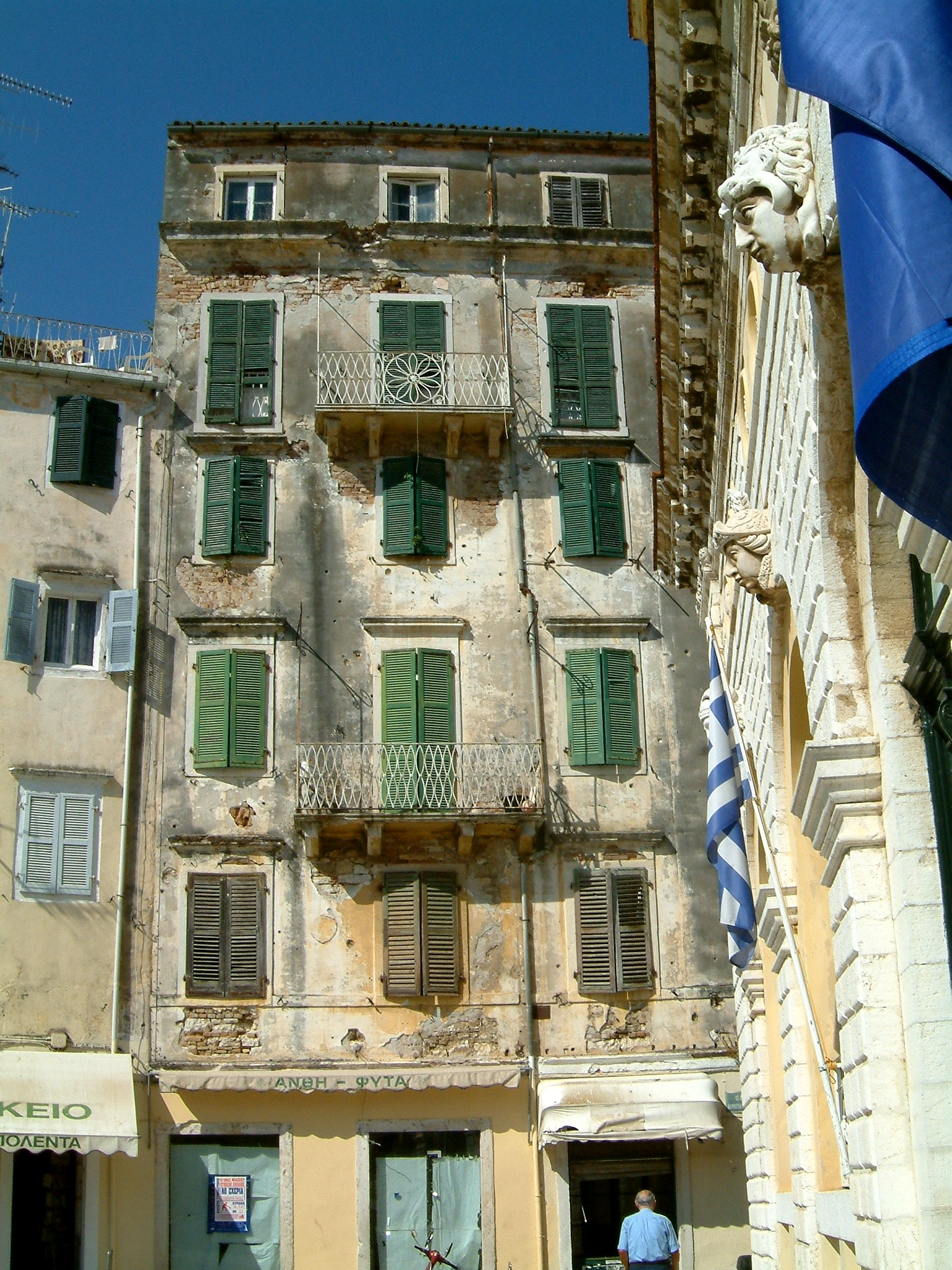 Greece_Corfu_Island_-_Capital_Kérkira domicile